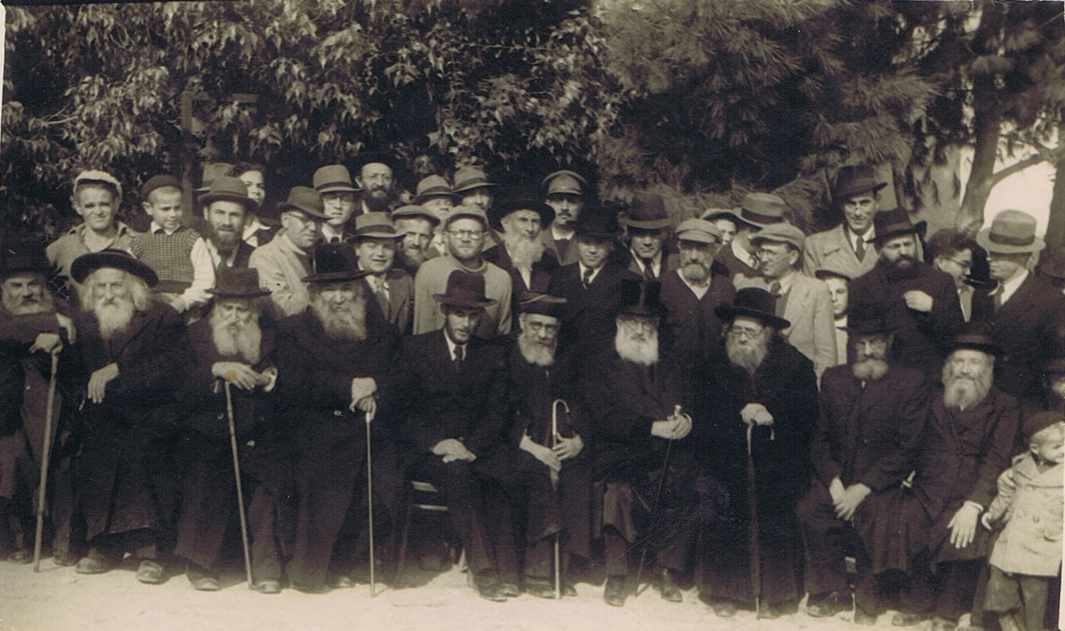 People of Israel